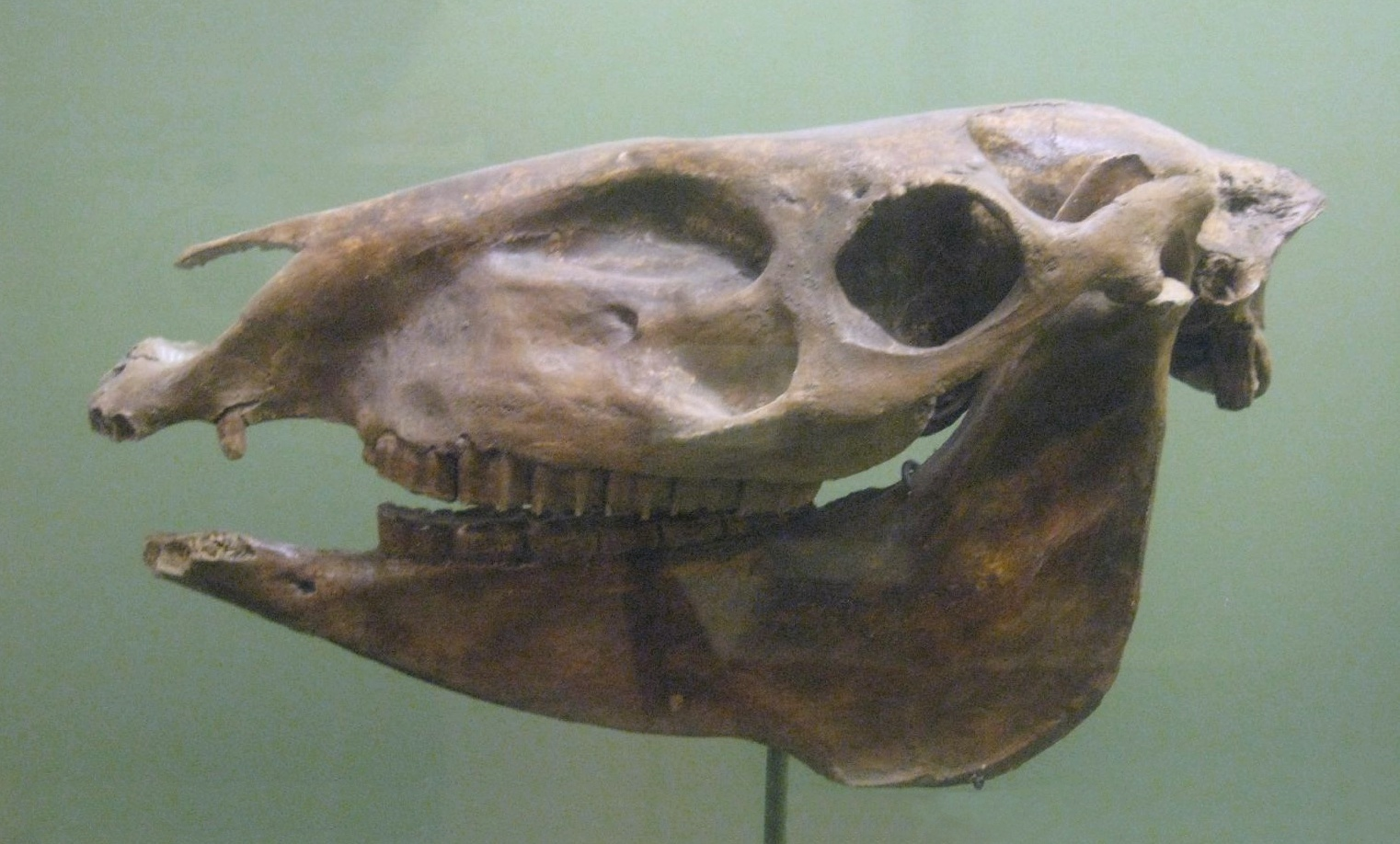 8 million years old Late Miocene